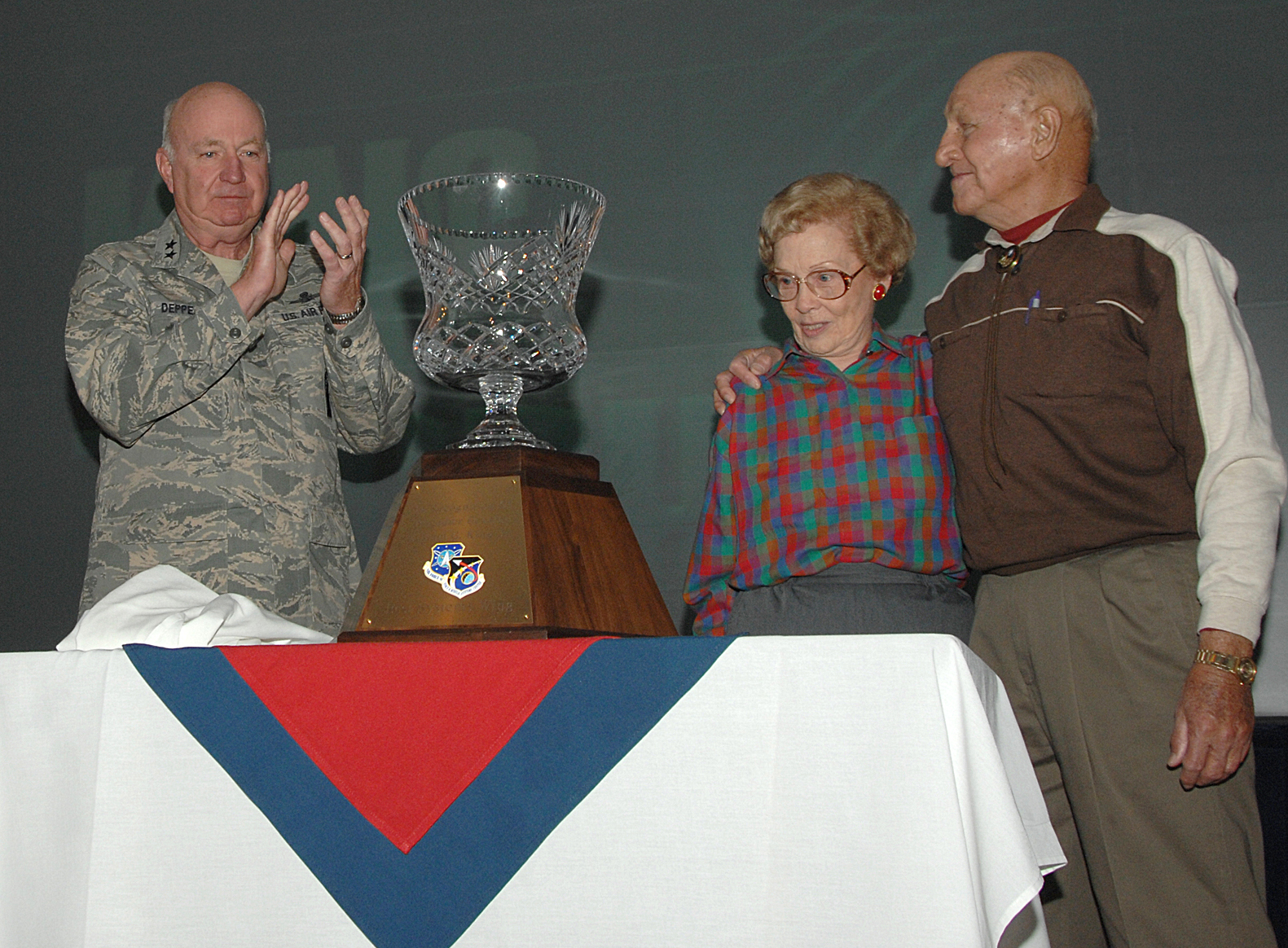 PETERSON AIR FORCE BASE, Colo. -- Maj. Gen. Thomas F. Deppe (left) applauds at the unveiling of the Brig. Gen. William G. King trophy during the welcoming ceremonies for Guardian Challenge 2008, Air Force Space Command’s competition for space professionals. Brig. Gen. (retired) King Jr. (right) and his wife Mary are seeing the trophy for the first time. The new trophy will go to the command’s best systems wing.